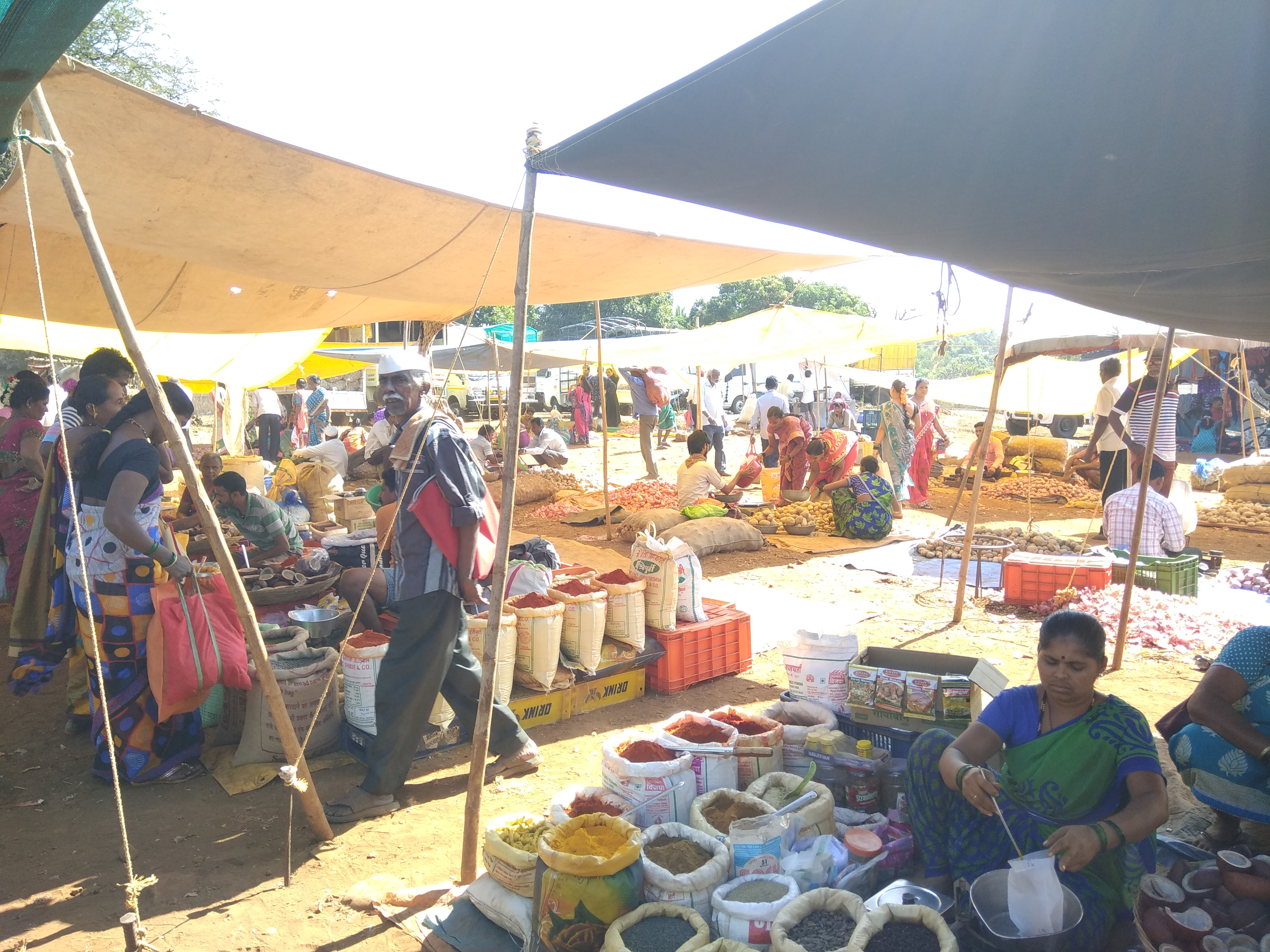 Weekly Village Market